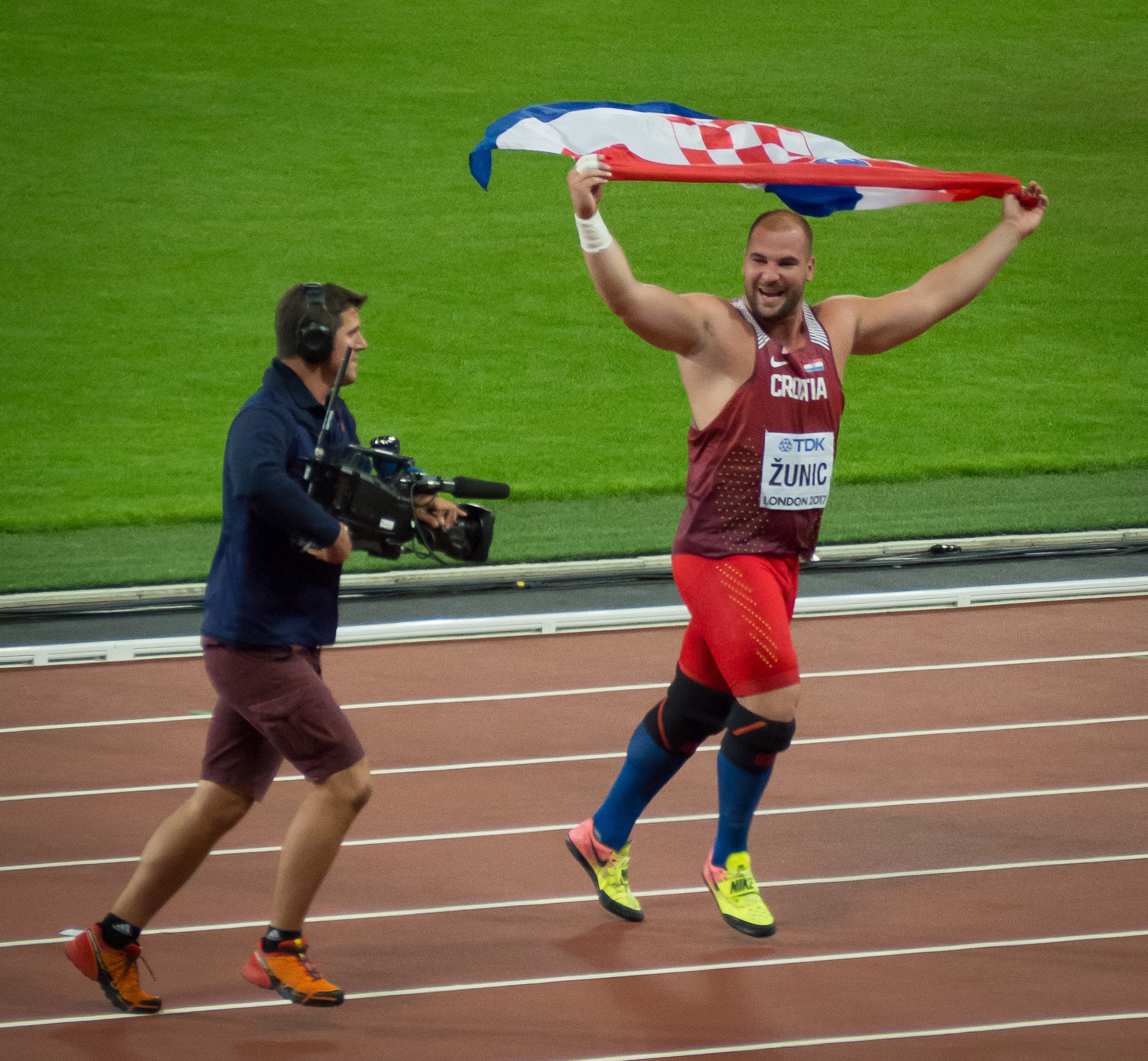 Shot-put Croatia celebrating, London Althletics